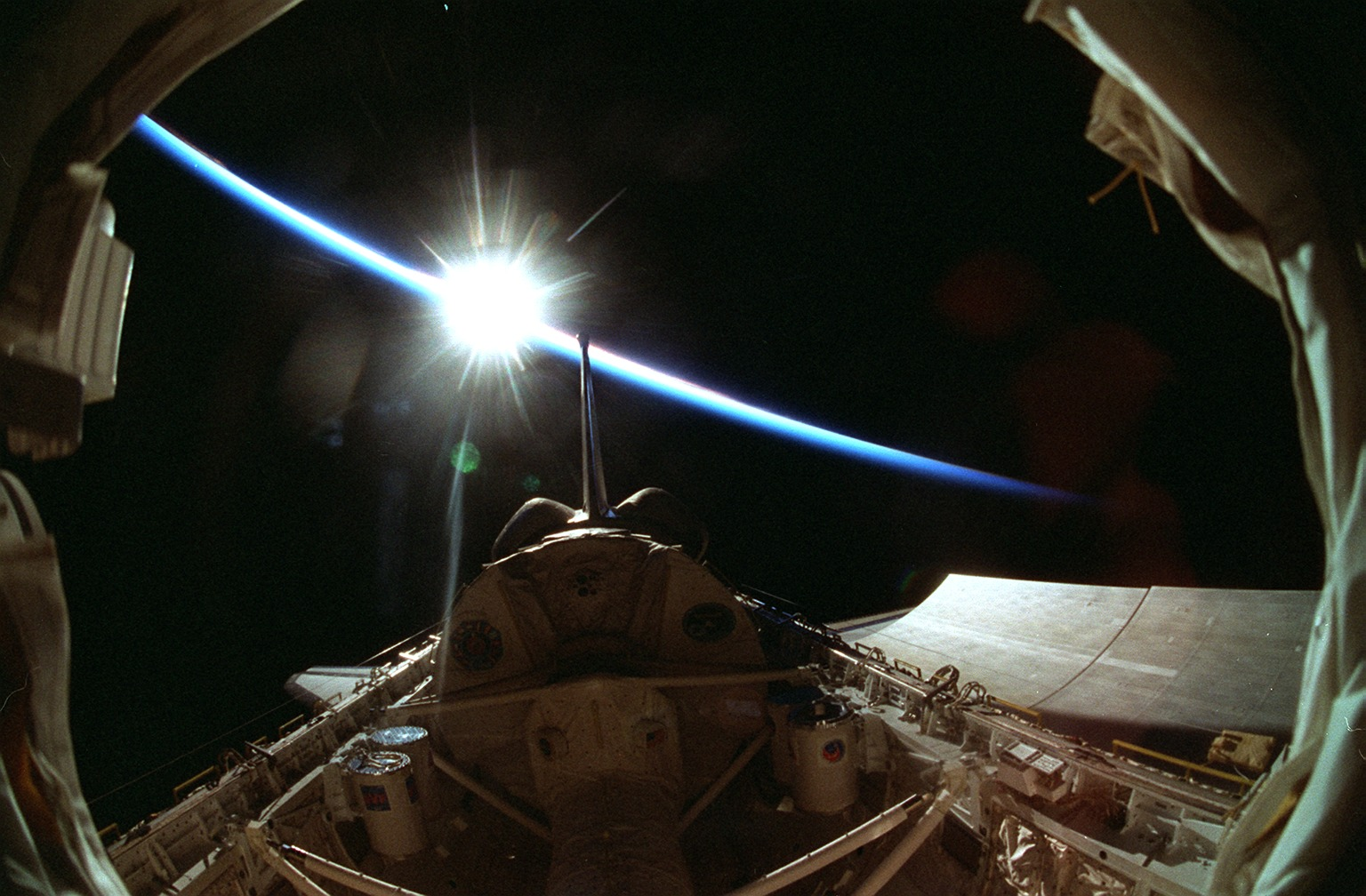 Spacelab in the payload bay of space shuttle Columbia during the STS-90 (Neurolab) mission. The tunnel connecting the spacelab with the cabin is visible in the bottom.